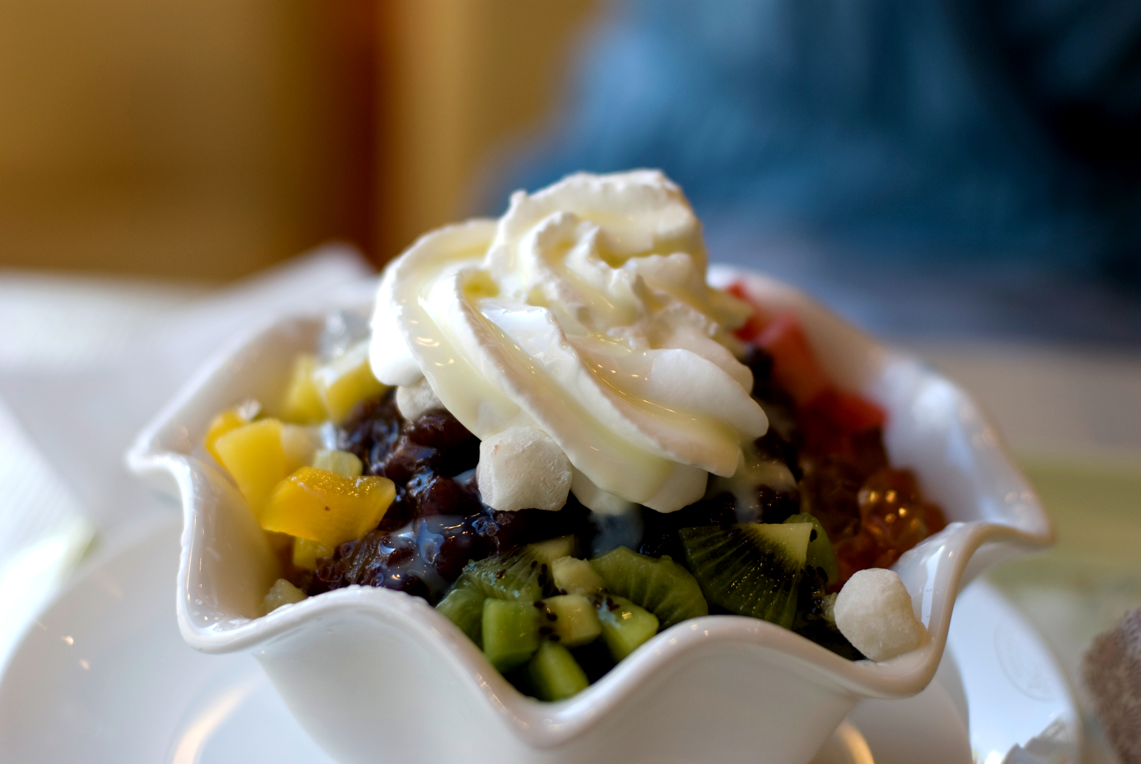 Patbingsu, Korean shaved ice dessert made with red bean paste and various ingredients.